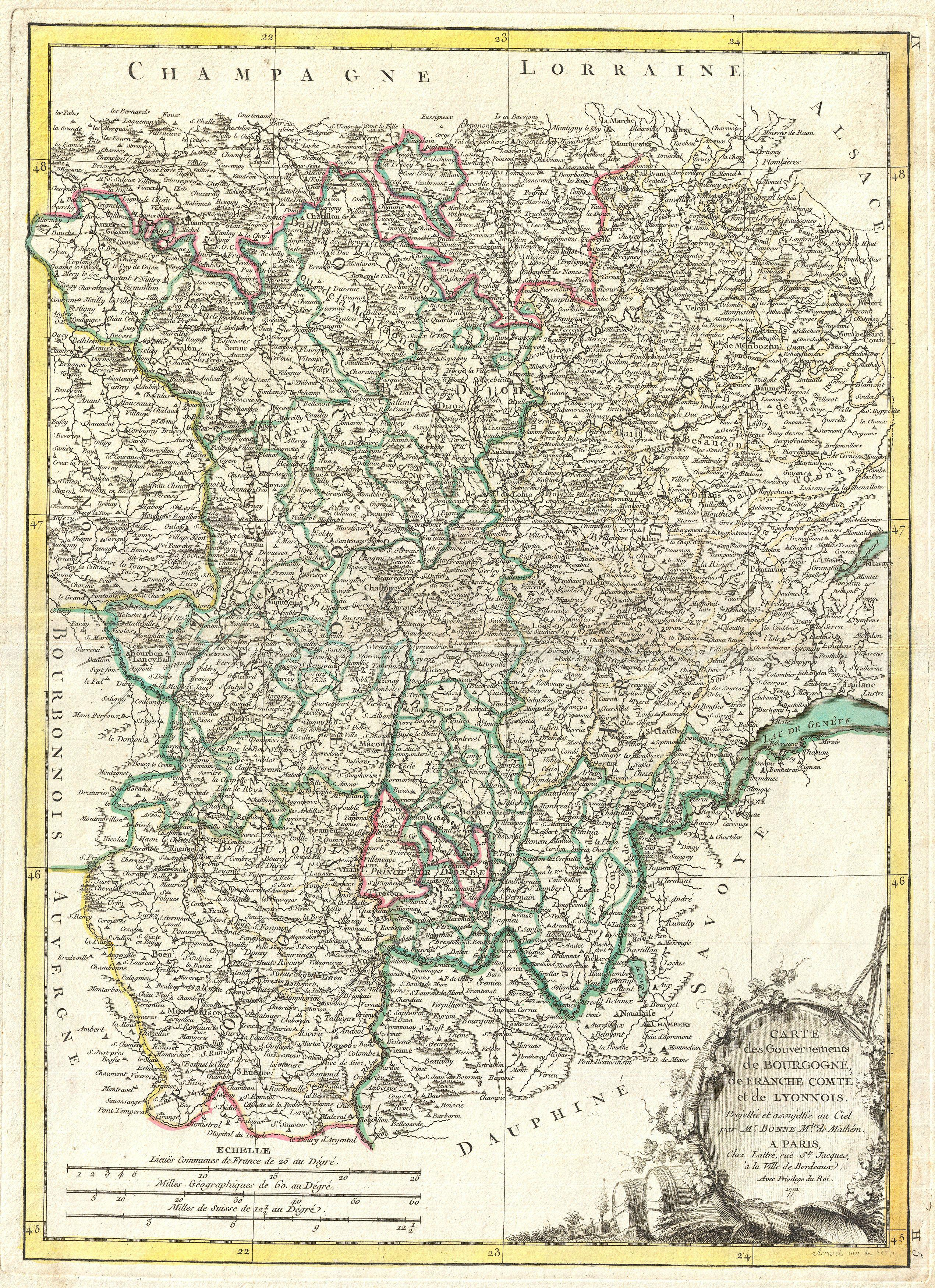 A beautiful example of Rigobert Bonne's decorative map of the French winemaking region of Burgundy, and the adjacent regions of Franche-Comte and Lyonnais. Covers the region in full from Champagne to Dauphine and from Auvergne to Savoy. This region is famed for producing the world's finest wines. A large decorative title cartouche appears in the lower right quadrant. Drawn by R. Bonne in 1771 for issue as plate no. H 5 in Jean Lattre's 1776 issue of the Atlas Moderne .